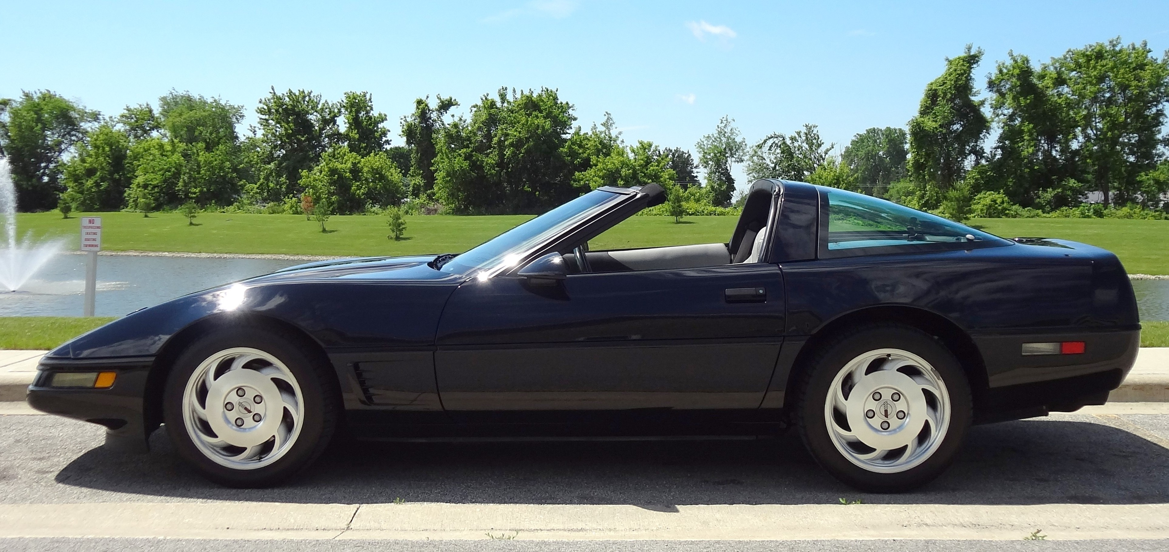 1996 Chevrolet Corvette Coupe